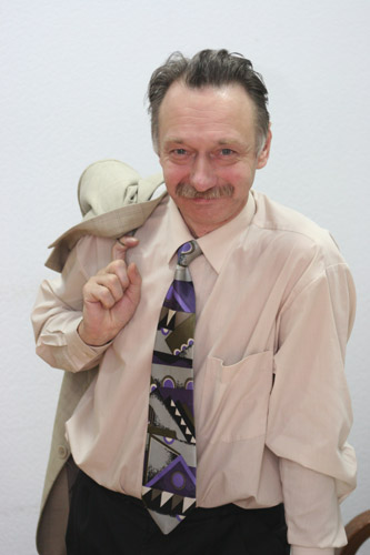 Russian wrighter Grigoriy Demidovtsev